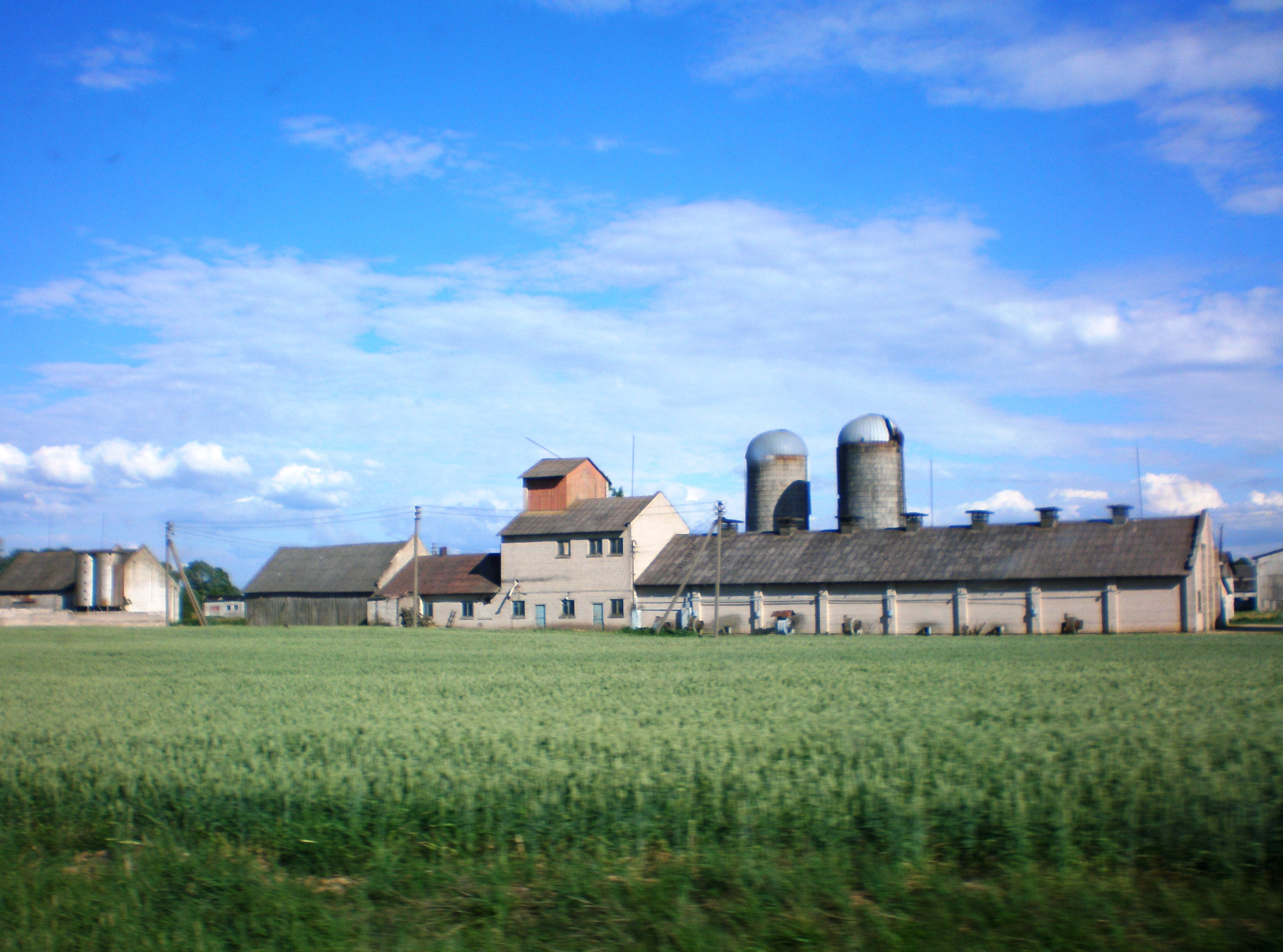 Kirdonys farm